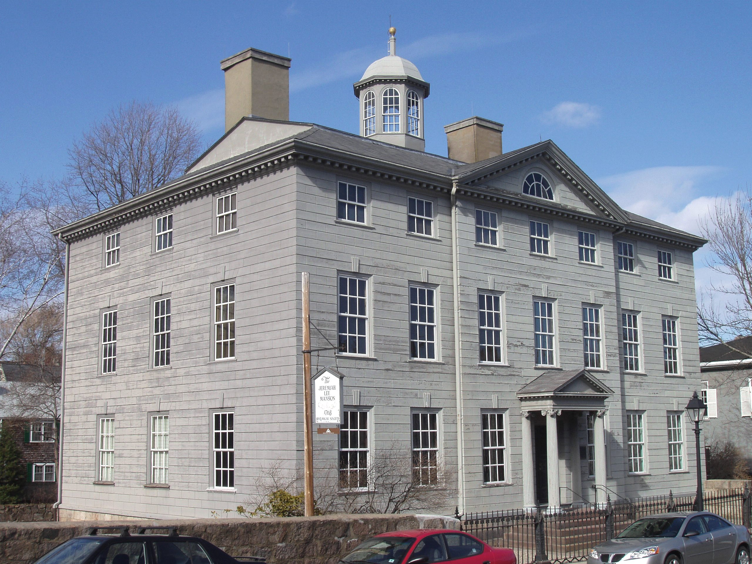 The Jeremiah Lee Mansion, Marblehead, Massachusetts. Photograph taken by me, March 2006.